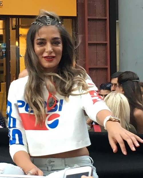 Iveta Mukuchyan Pepsi Challenge